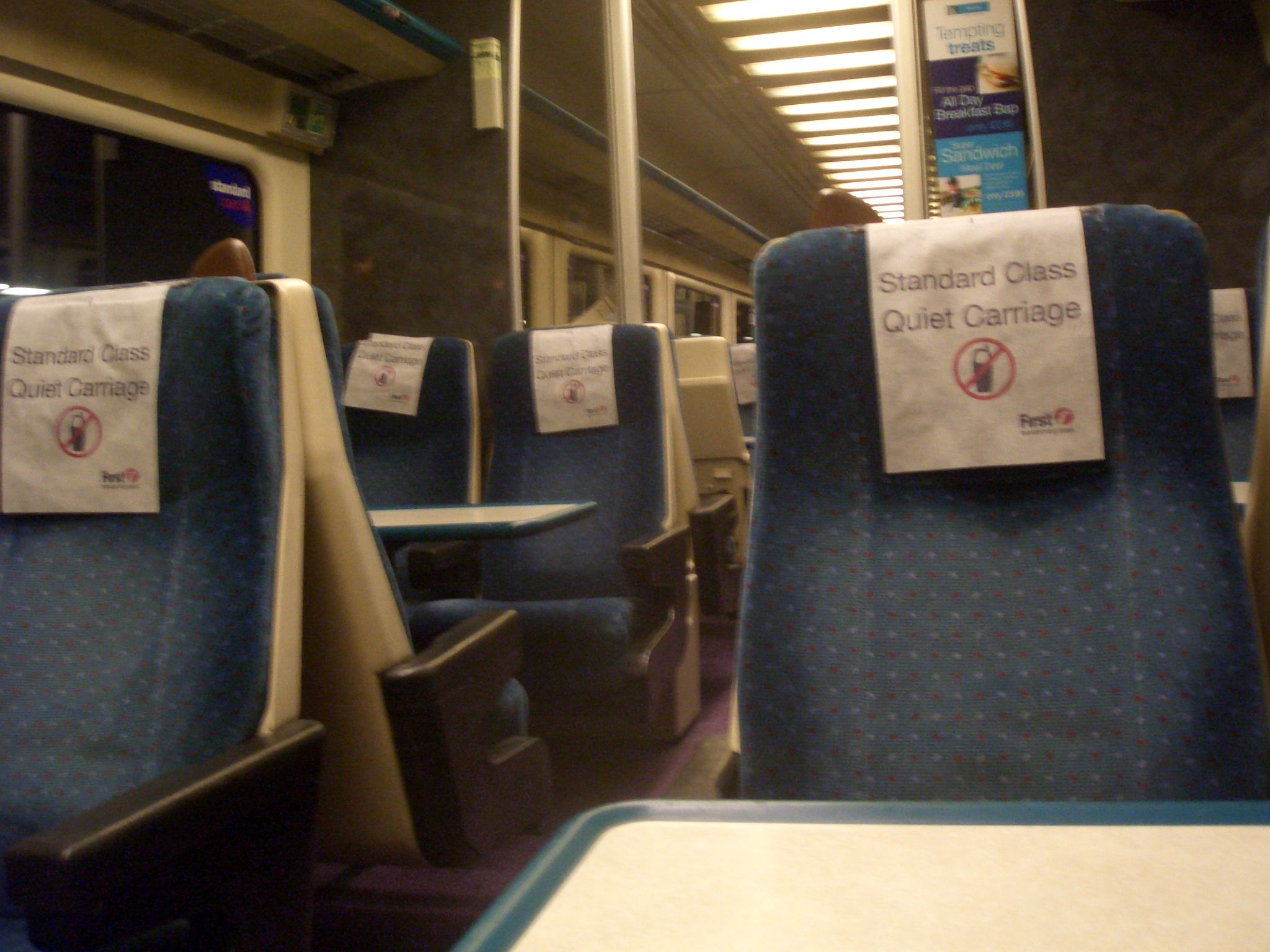 The interior of the Standard Class Quiet Carriage of a High Speed Train operated by First Great Western. No mobile phones are permitted. Photo taken by User:Edward.